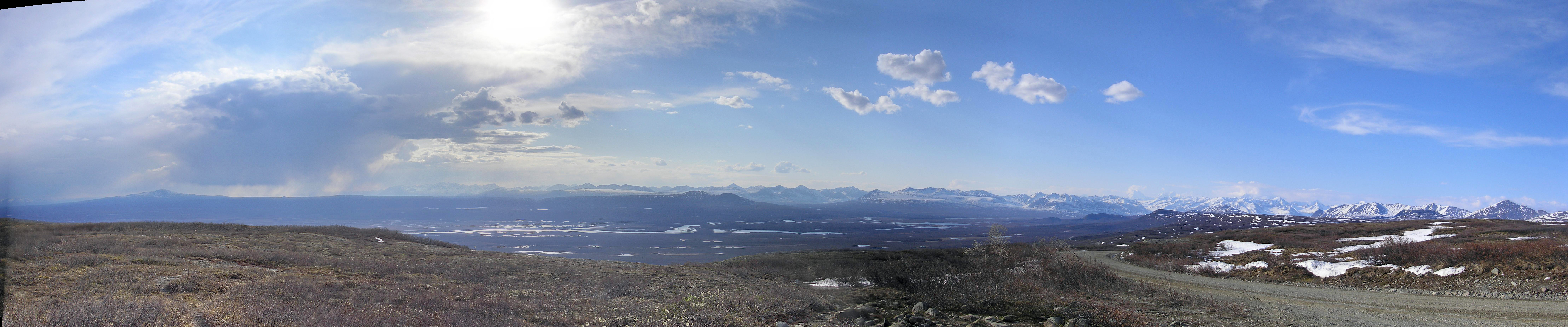 Maclaren Summit, Denali Highway, Alaska